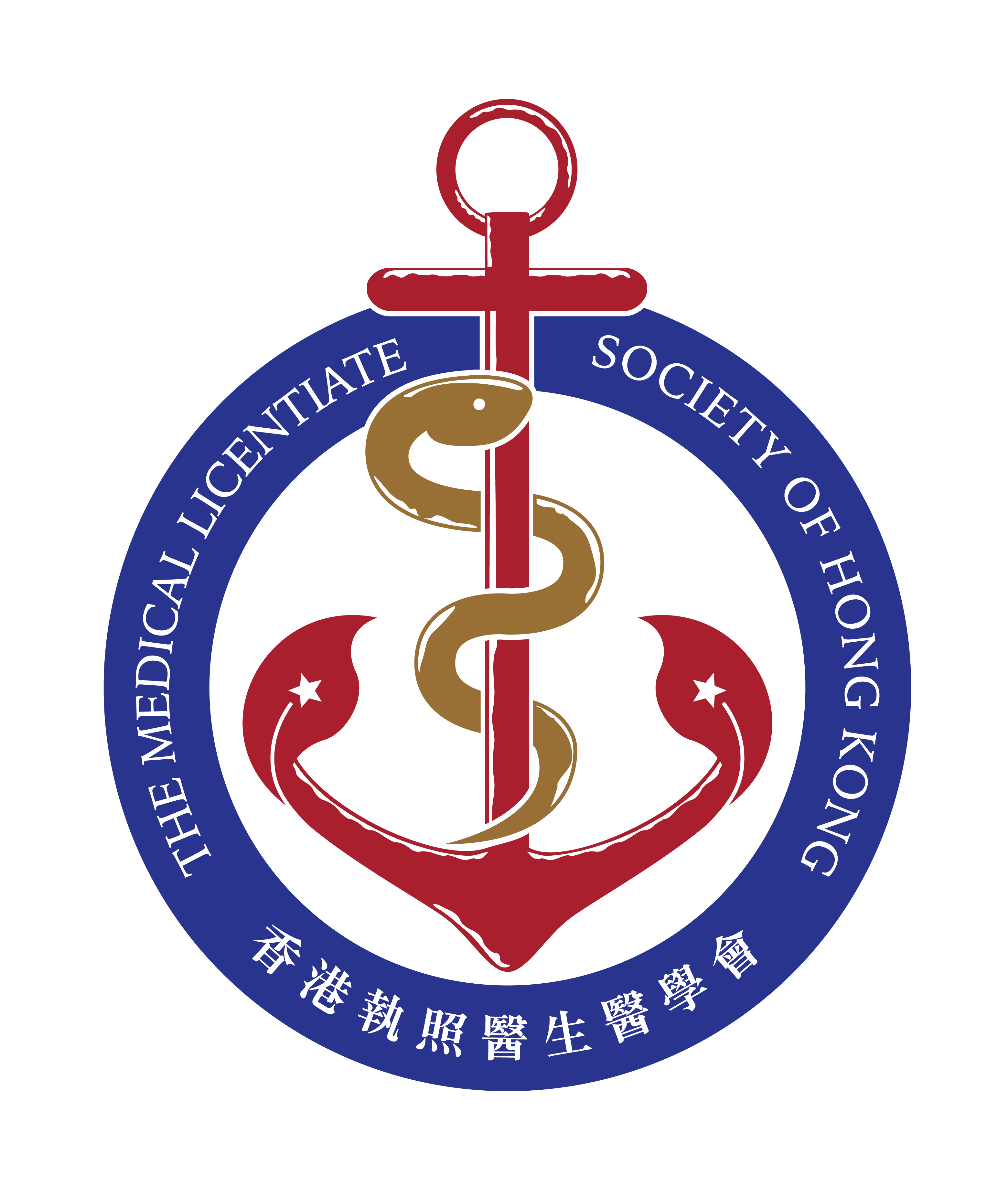 Logo of the Licentiate Society of Hong Kong